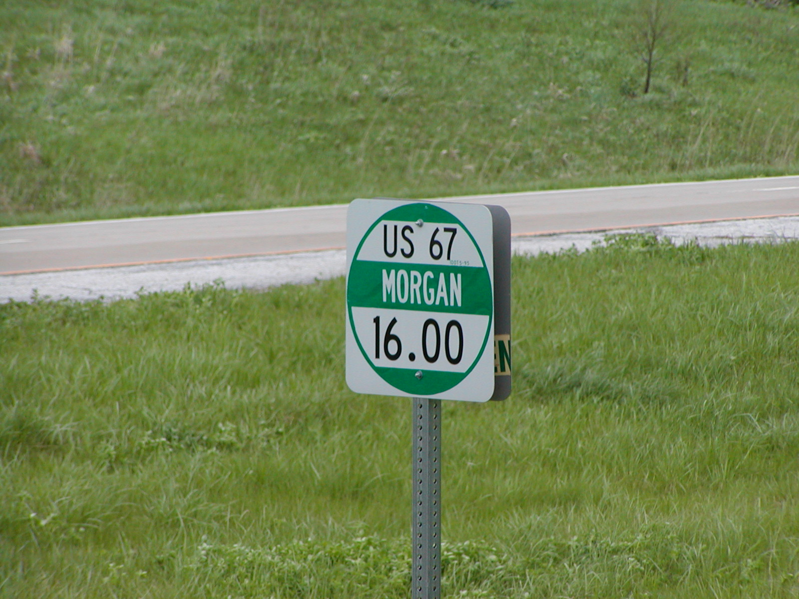 Illinois state Inventory Route sign in Morgan County on US-67